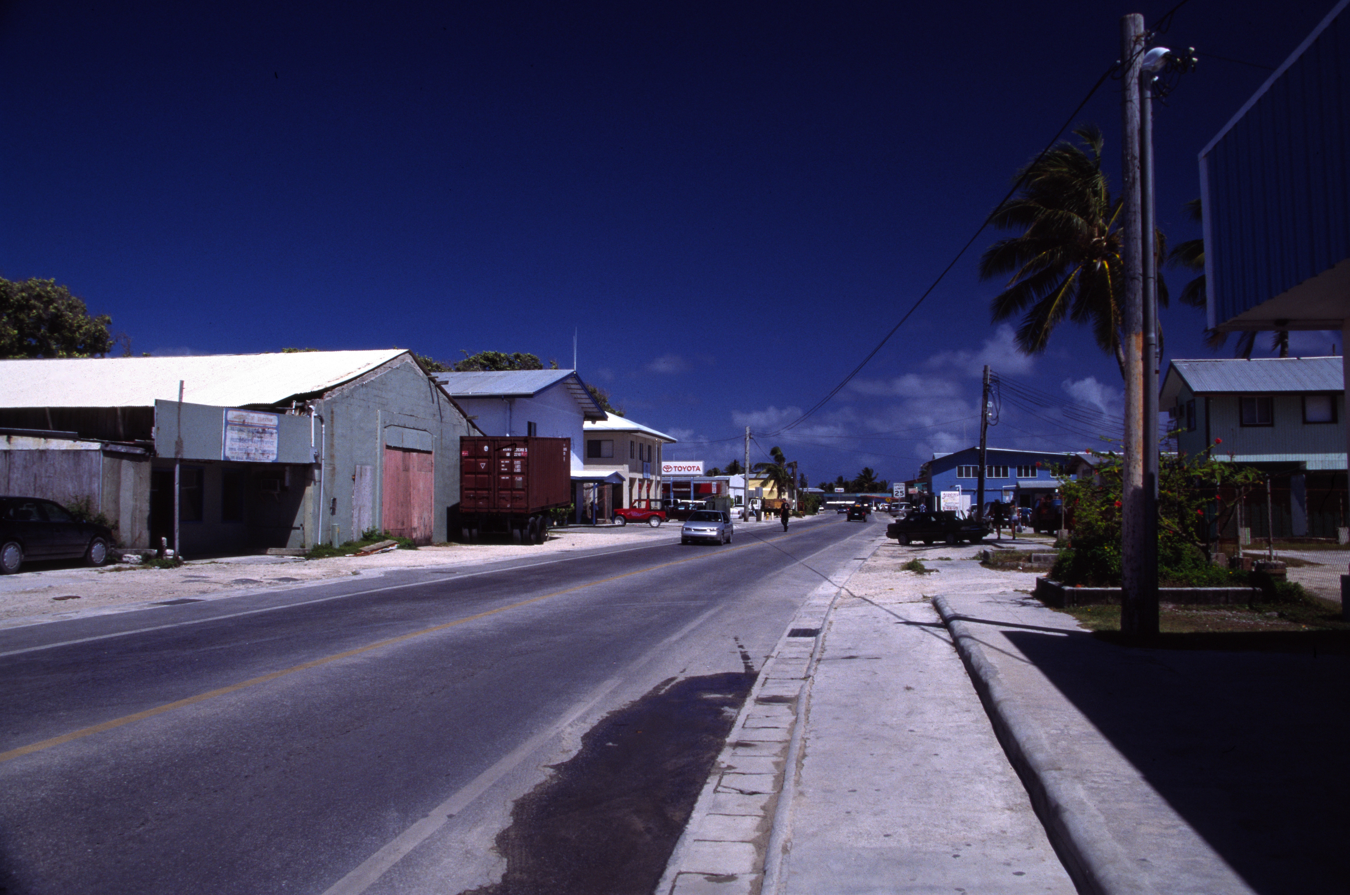 Majuro (Marshall Islands) main road